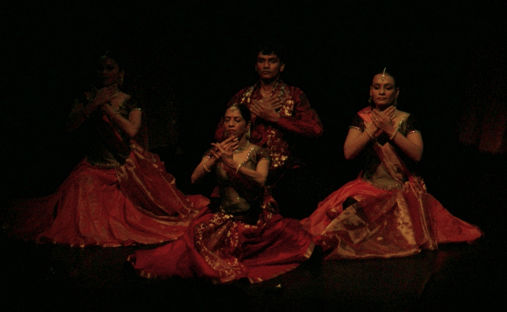 Aditi Mangaldas with ensemble, show in Warsaw